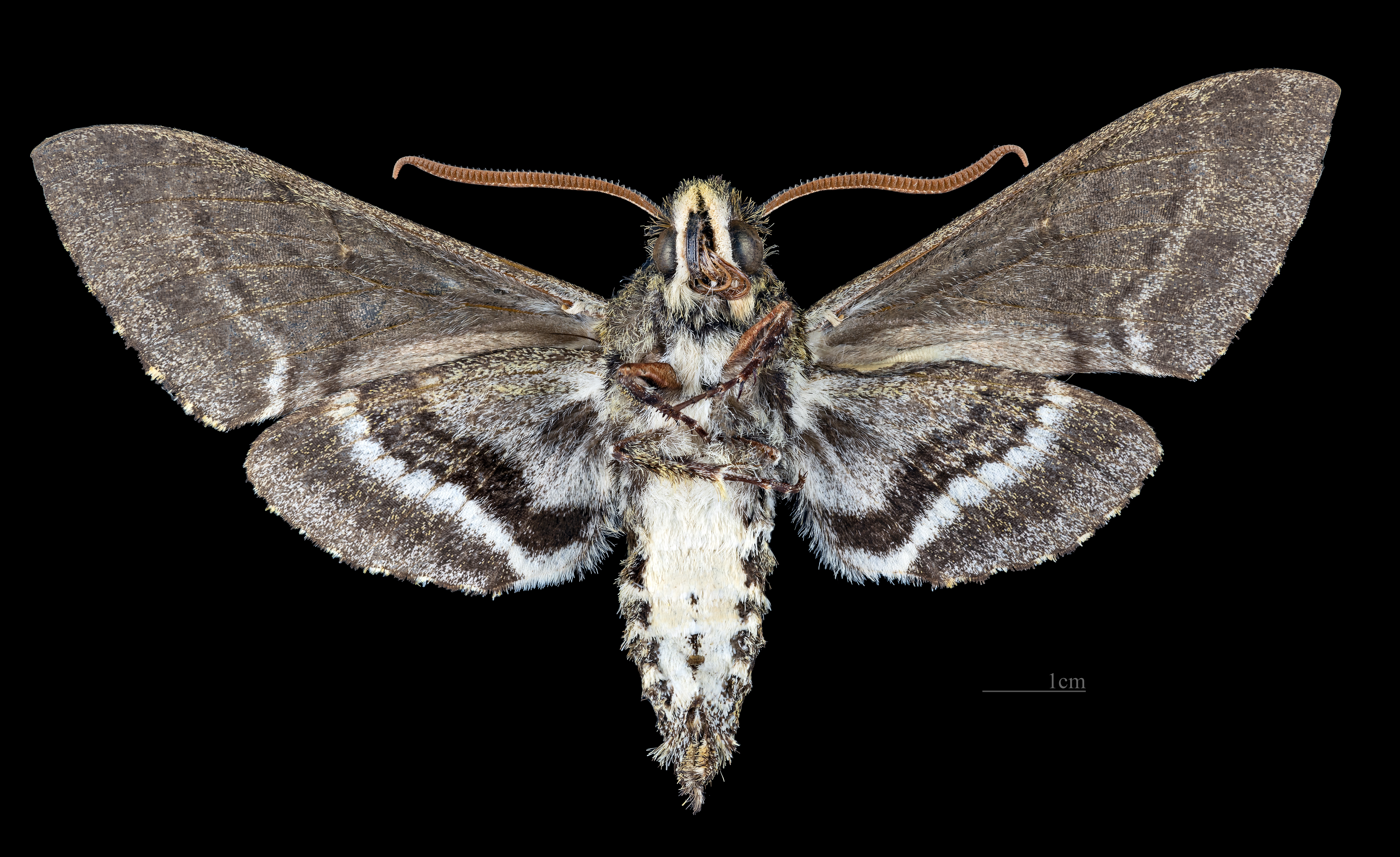 Manduca jordani - △ Ventral side Collection of the Mathematician Laurent Schwartz